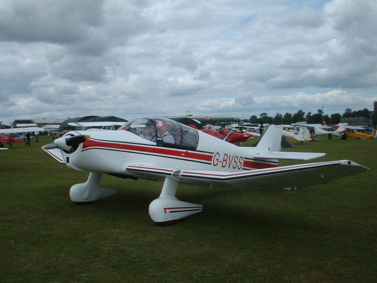 Jodel D.150 Mascaret at PFA Rally in Cranfield, 2002.